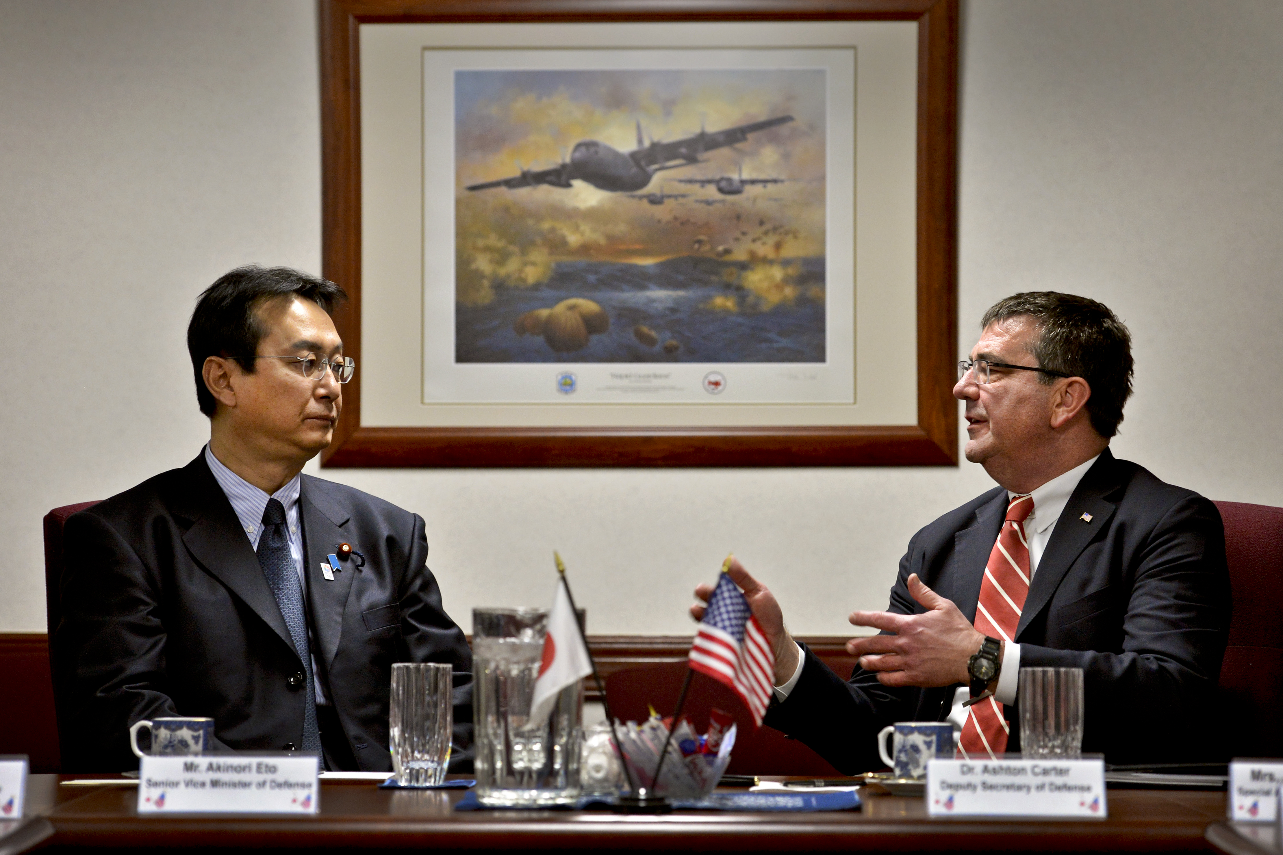 Ashton Carter, Deputy Secretary of Defense, talked Akinori Eto, Senior Vice-Minister of Defense, at the Yokota Air Base in Tōkyō Metropolis on March 17, 2013.